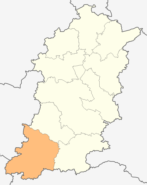 Map of Varbitsa municipality, Shumen Province